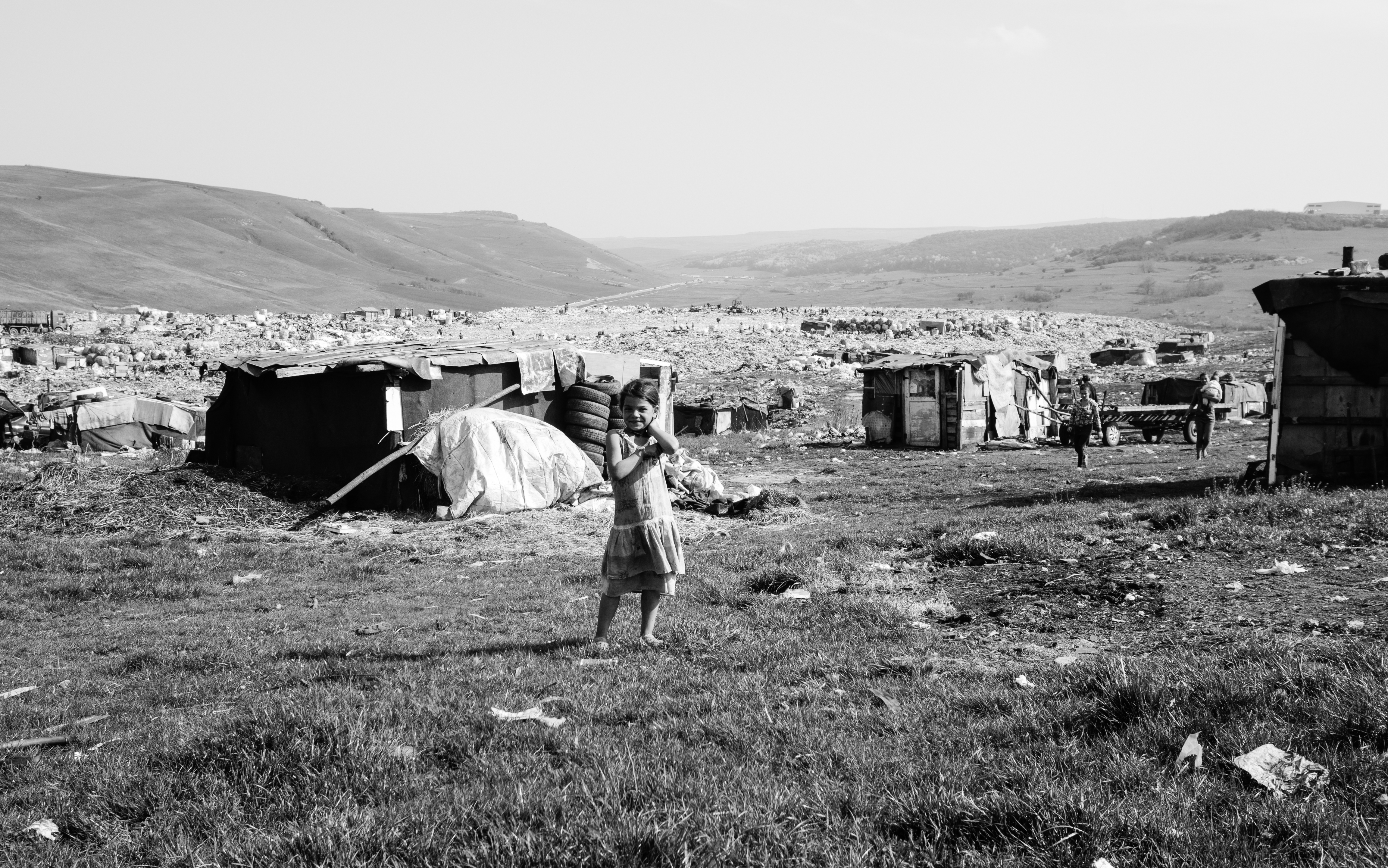 Cluj landfill, Pata Rât, 2014. Image also depicts Romani settlement and an unidentified youth. Taken with OLYMPUS DIGITAL CAMERA